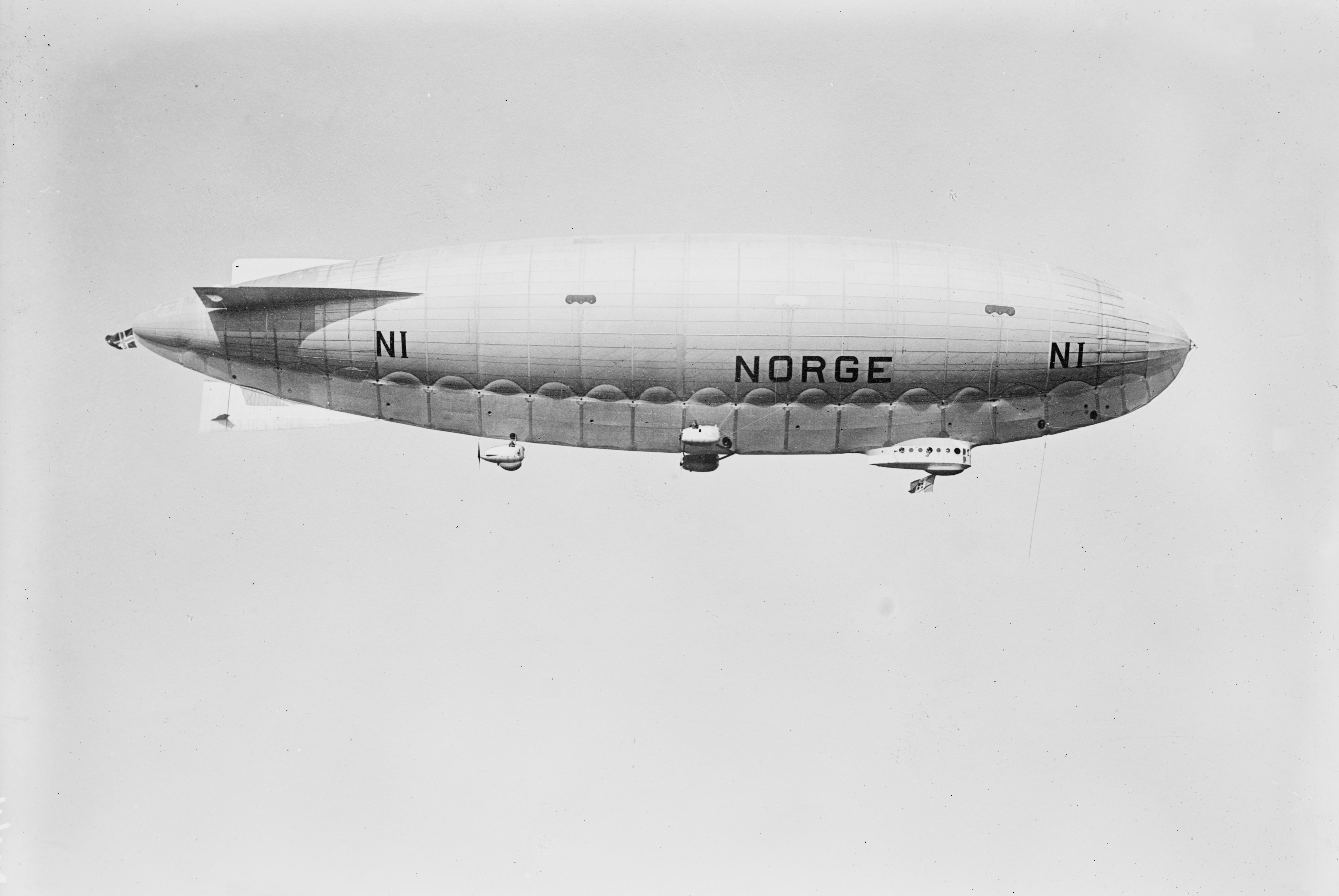 The airship Norge in flight after leaving its hangar in 1926.